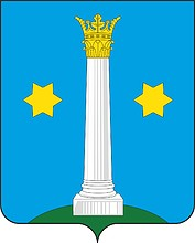 Kolomna (Moscow oblast), coat of arms